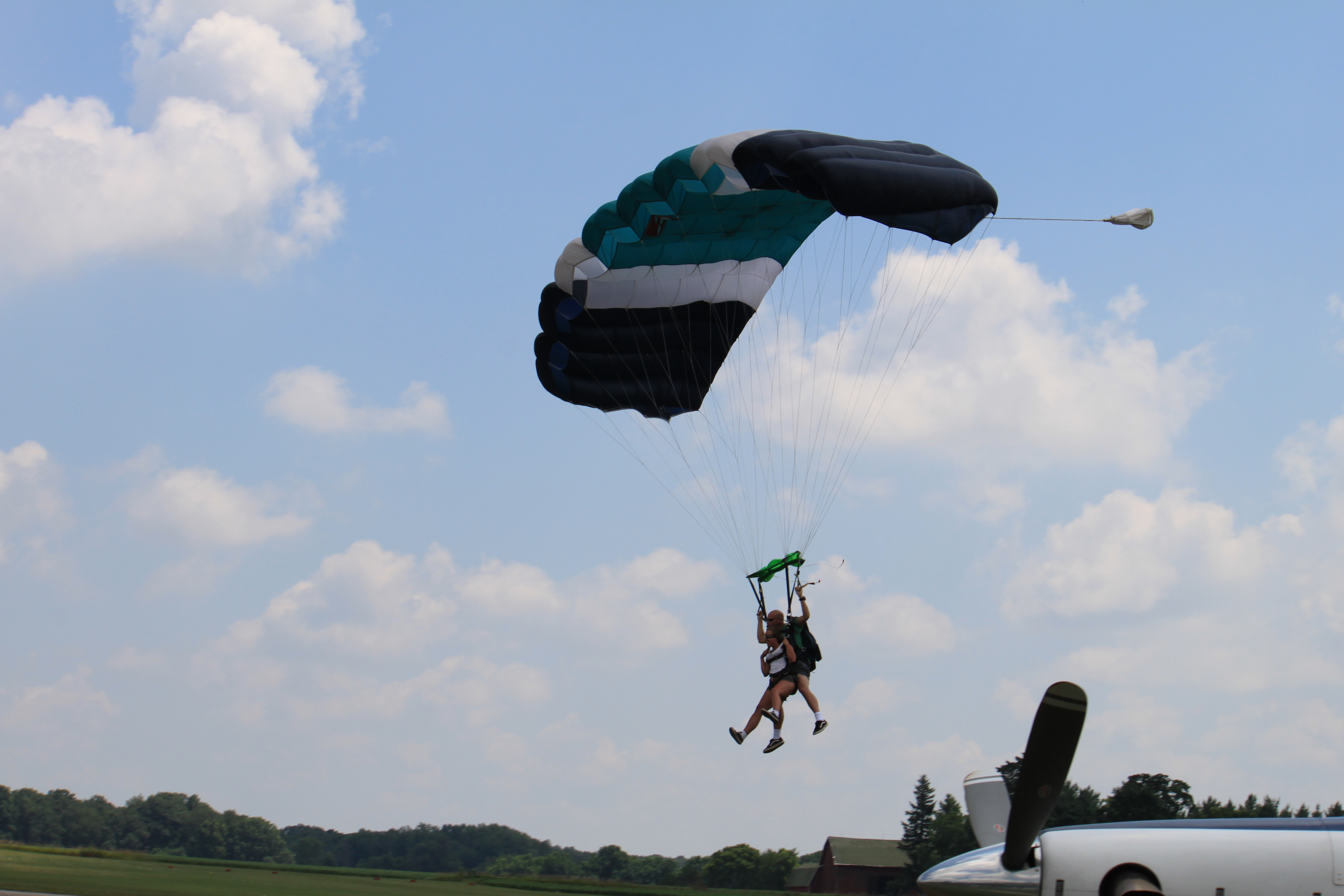 Meyers-Diver's Airport, Tecumseh Michigan, tandem skydiving landing at Skydive Tecumseh